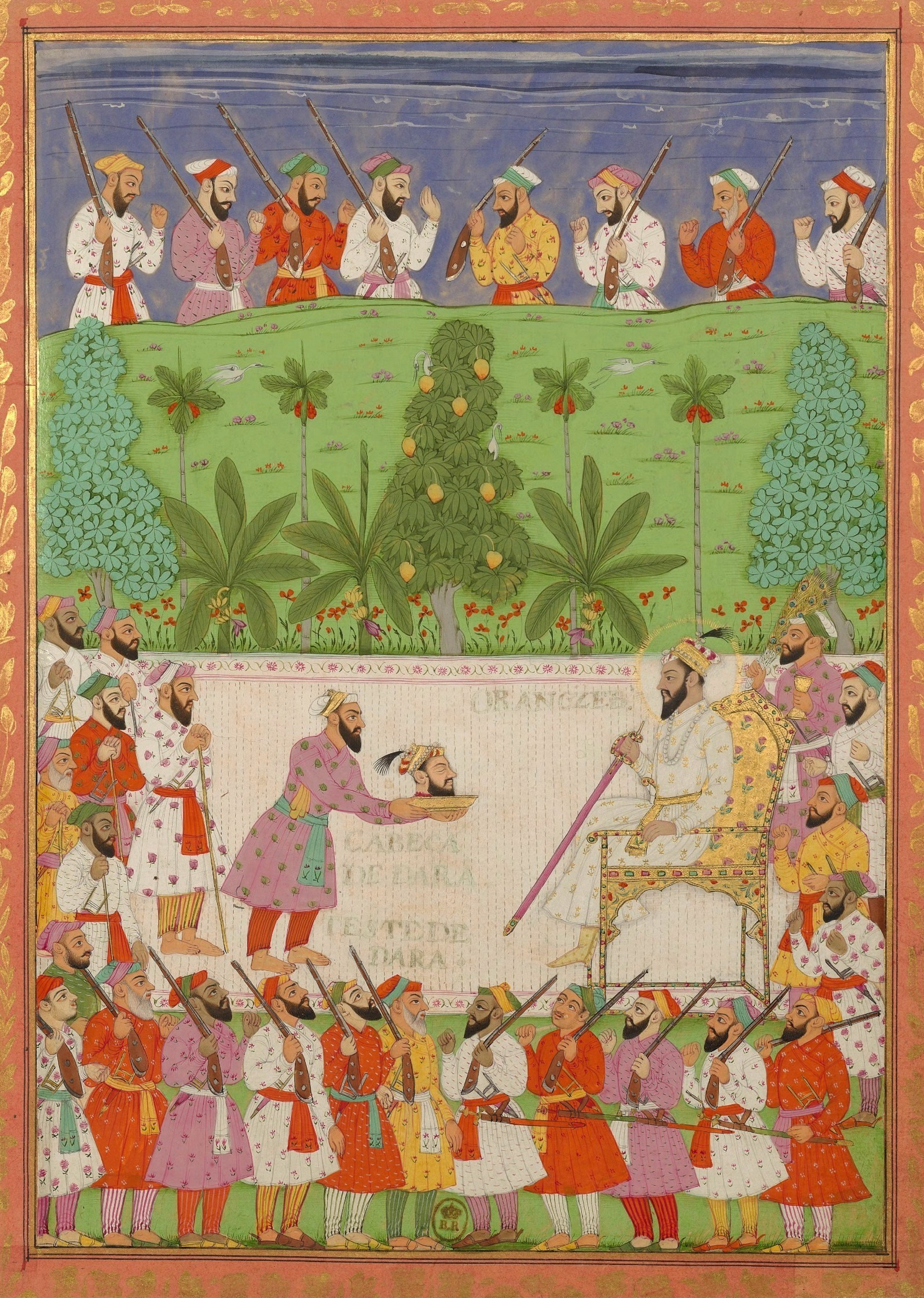 The Slave Nazir Present to the Emperor Aurangzeb Dara Shikoh's Head. Golconda, 1678-1686, Biblioteque Nazionale de France, Paris